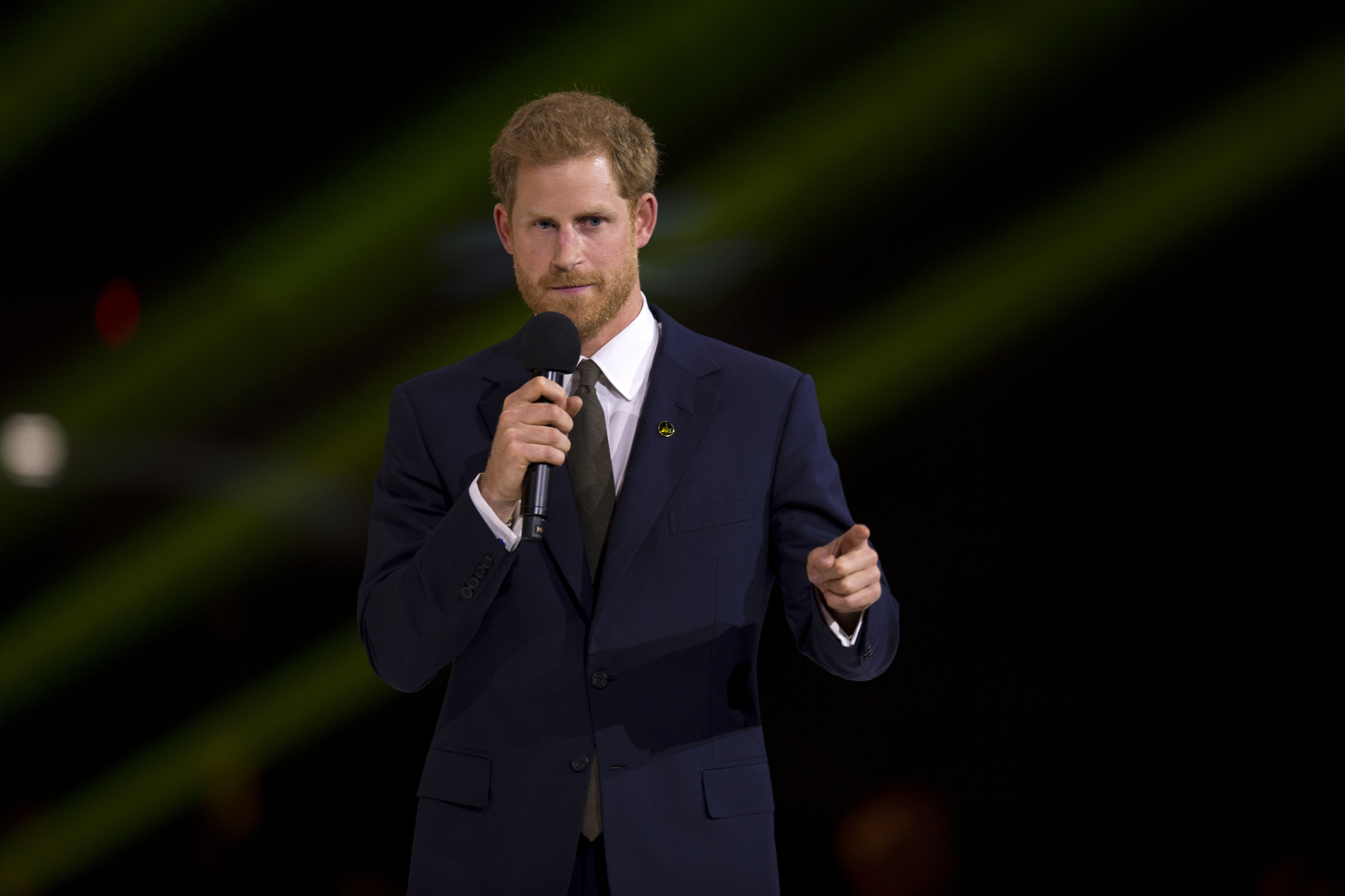 United Kingdom’s Prince Harry speaks during the opening ceremonies of the the2017 Invictus Games in Toronto, Canada Sept. 23, 2017. (DoD photo by EJ Hersom)